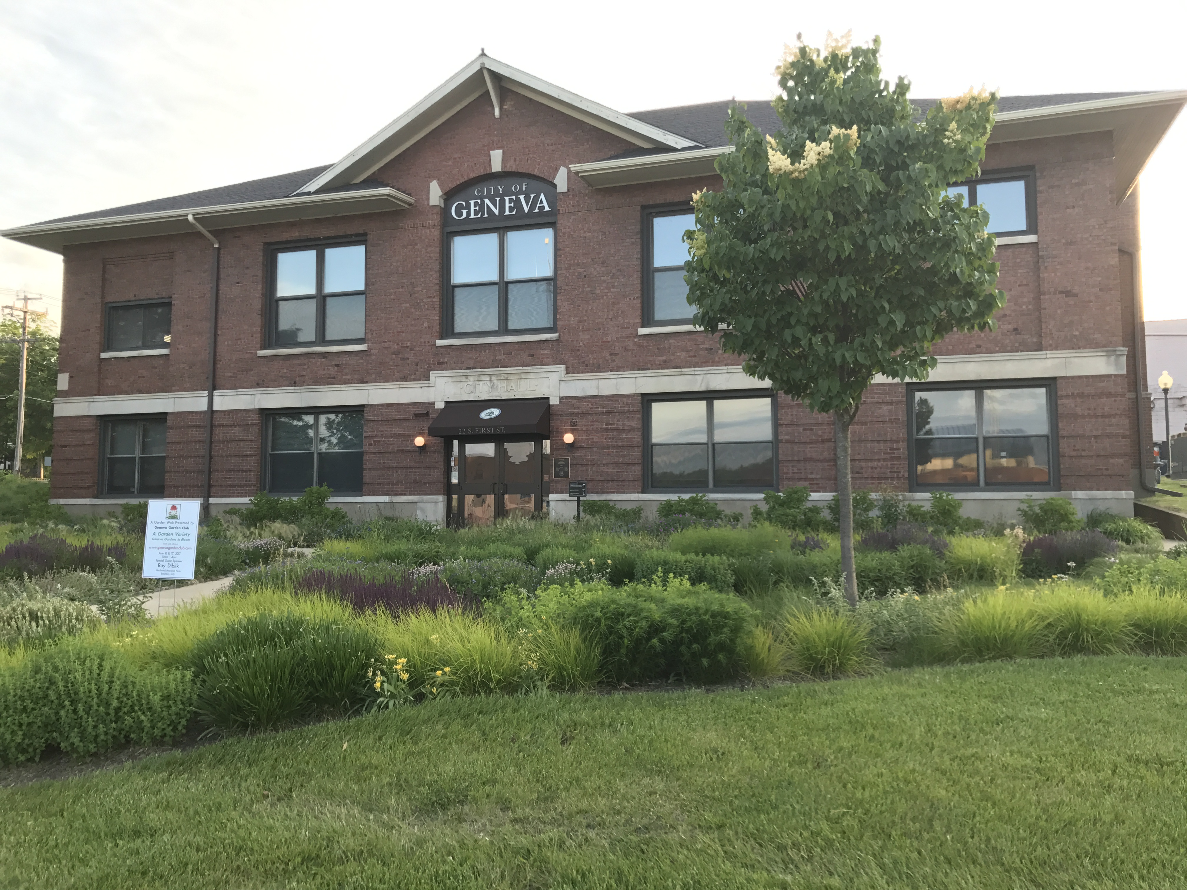 The view of Geneva City Hall from Illinois Route 31/1st Street (2017)